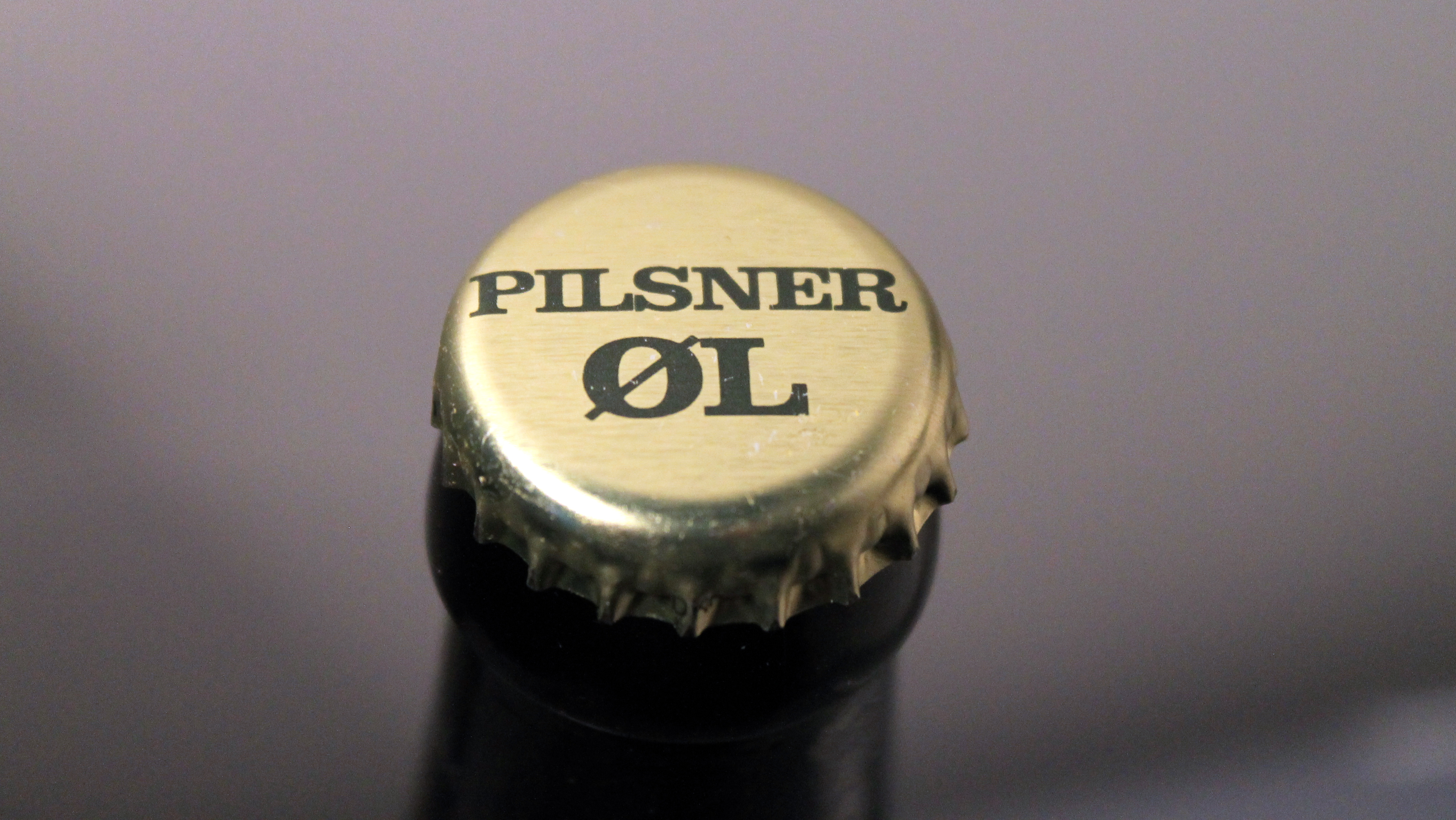 a beer cap